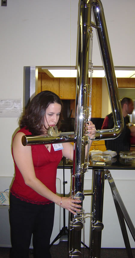 American flutist Maria Ramey playing a double contrabass flute. Contents 1 Permission 1.1 Email requesting permission 1.2 Email granting permission 2 Licensing 3 Original upload log Permission Email requesting permission From: Wikipedia user: Badagnani To: Maria Ramey Date: Monday, December 22, 2008 4:26 AM Subject: Your double contrabass flute photo Hello, I am one of the thousands of volunteer editors at Wikipedia, where I write and edit various music-related articles. I wrote several on the very low flutes and have had links on at least two of them to photos in which you play them, but we never had any photos of people playing them. I am wondering if you might allow the photos of you playing the double contrabass and subcontrabass (double contra-alto) to be used here, as the representative photos of these instruments: As per Wikipedia's rules, the only specification would be that the photographer agree to release the photo under a "free" license such as the Creative Commons, which would allow the photo to be reused by anyone who finds it at Wikipedia, for any purpose (although the photographer would always have to be credited, and there would be a link to your website). Wikipedia is now the eighth most visited website in the world, so I think it would serve a good educational purpose, and you'd get a lot of views. Would you please let me know if that would be okay with you? Many thanks and best, Wikipedia user: Badagnani Kent, Ohio Email granting permission From: "Maria Ramey" To: Wikipedia user: Badagnani Date: Monday, December 22, 2008 12:16 PM Subject: RE: Your double contrabass flute photo Hello, Yes, you may use my photo. Let me know if you need to use a different size of the same photo that whatâ€™s on my website currently. Maria Ramey Flute Finds â€“ Gifts and accessories for flutists!